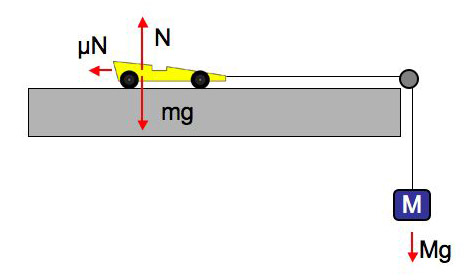 Measuring static friction